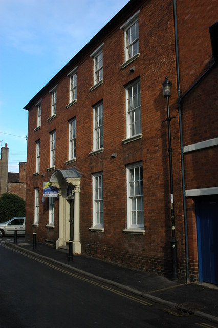 Birth place of Stanley Baldwin, Bewdley. On 3 August 1867 future British Prime Minister was born in this house in Bewdley in Worcestershire He served three terms as Prime Minister of the United Kingdom; first from 1923-24 then 1924-29 and again from 1935-37. See: 1032431